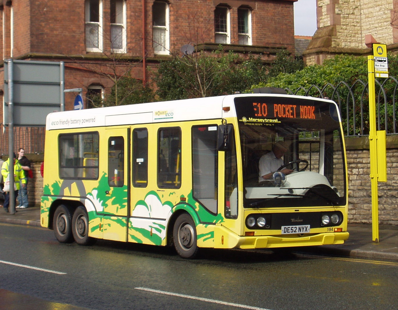 Tecnobus Pantheon electric minibus in St Helens